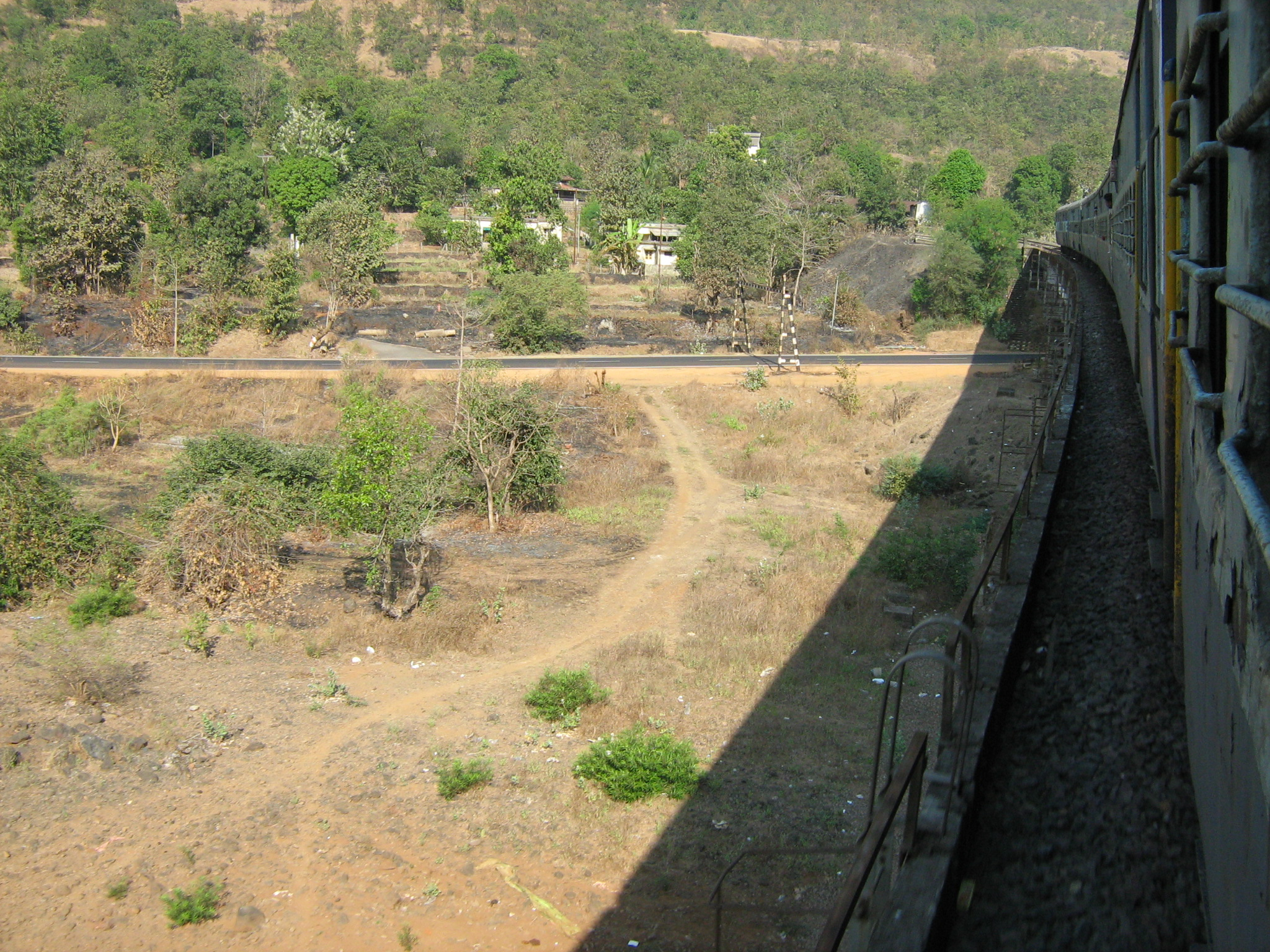 Views from Konakan Railway